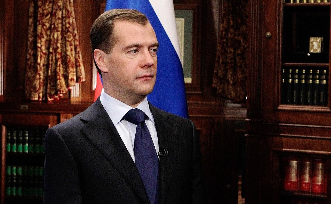 Statement by the President in connection with the situation that has evolved around a missile defense system of NATO in Europe.